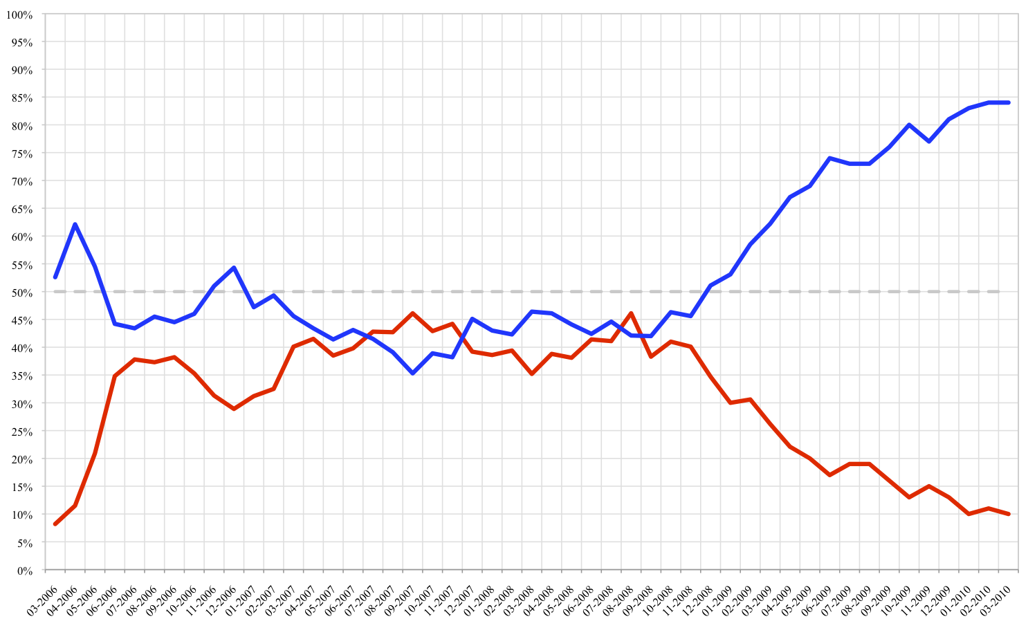 BLUE/AZUL: Approval of Bachelet's leadership/Aprueba la conducción de Bachelet RED/ROJO: Disapproval/Desaprueba Data source: Adimark